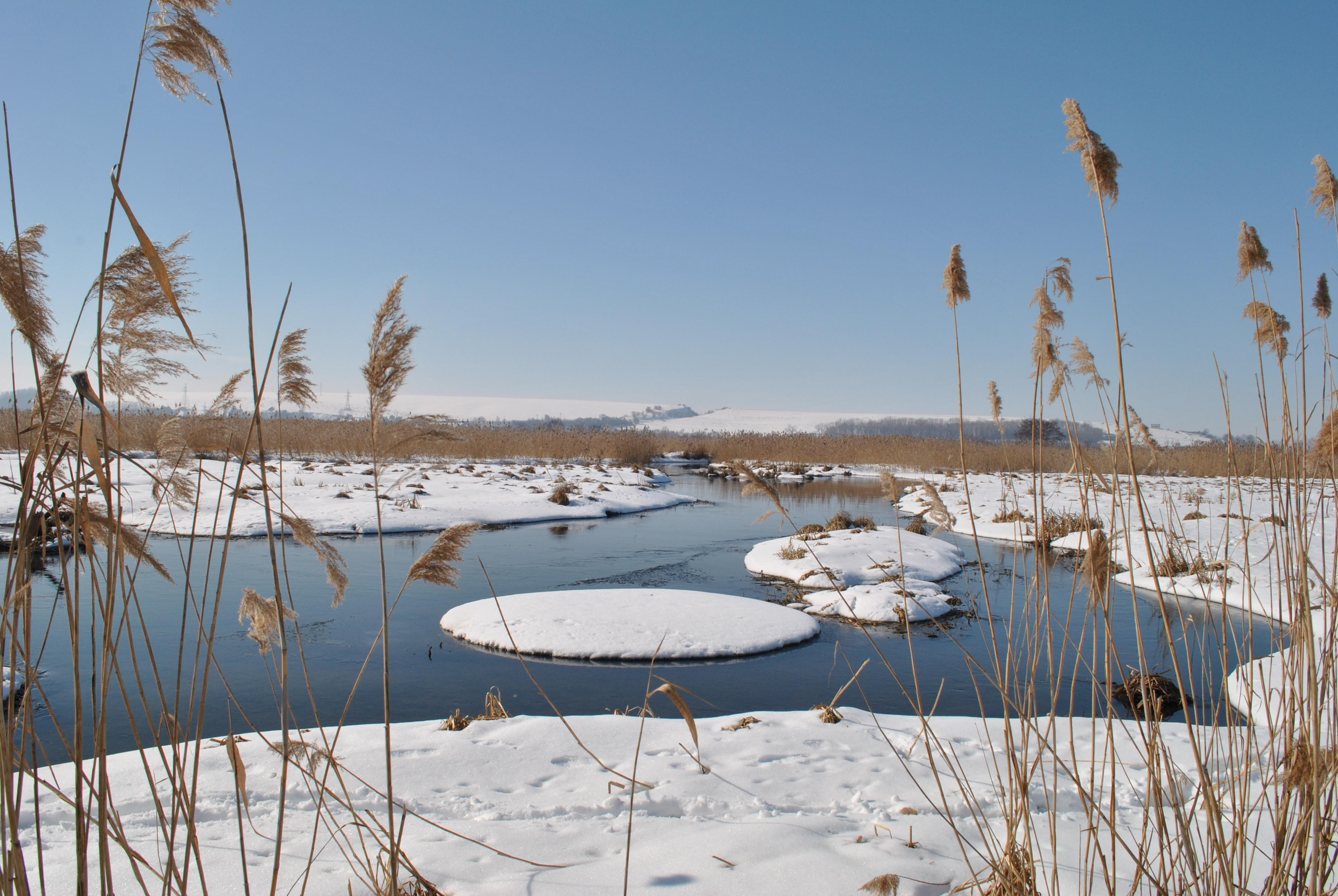 Chystyliv sanctuary